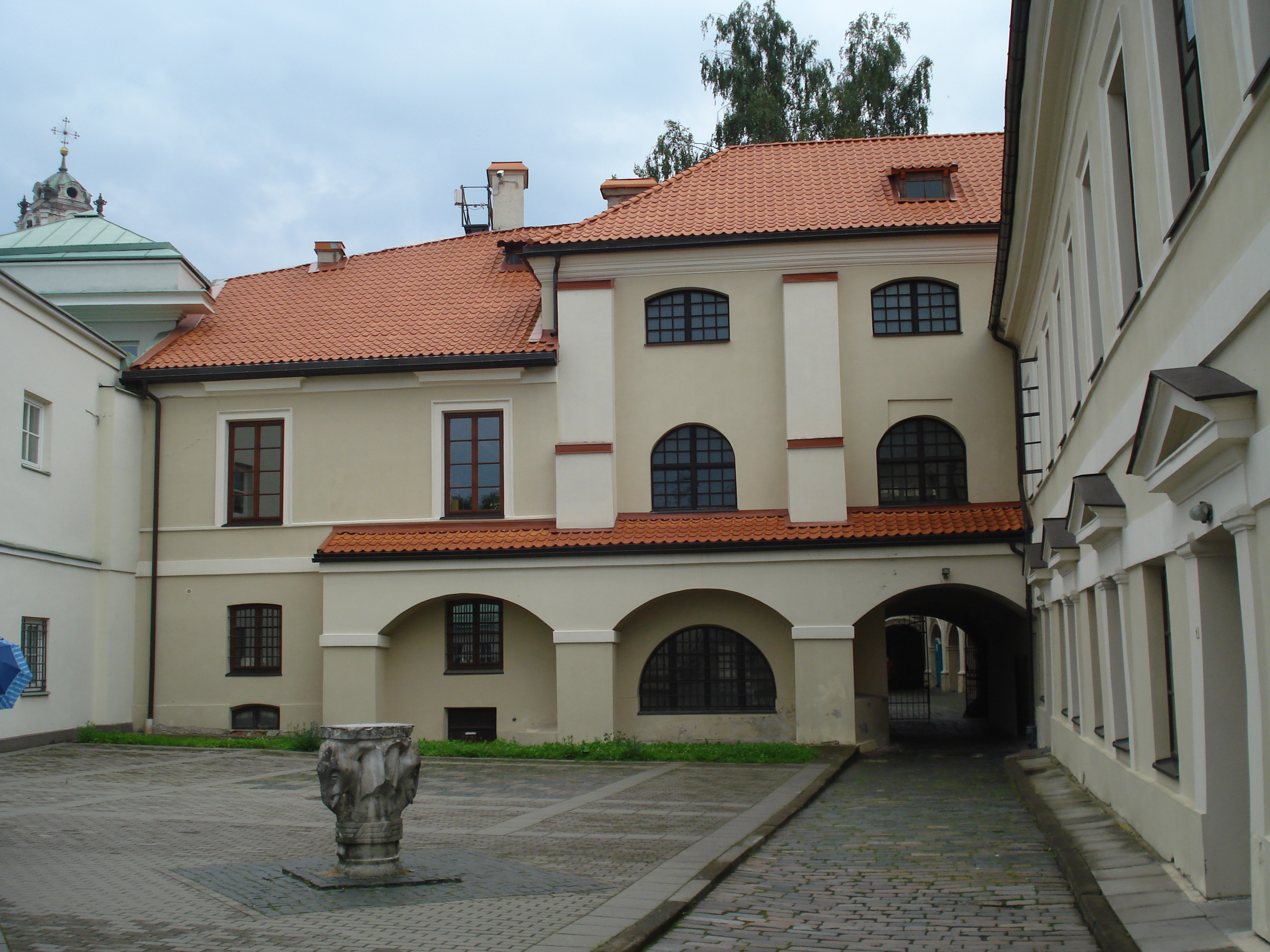 Alumnat in Vilnius (1622; Universiteto g. 4)